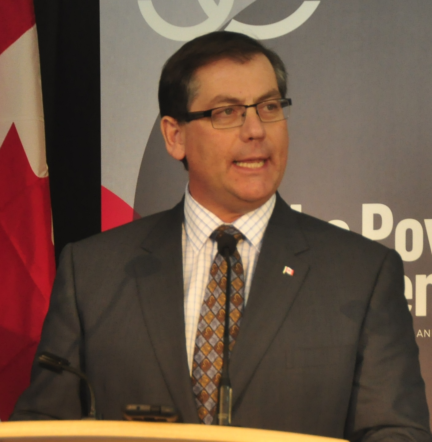 Kevin Sorenson at the SFU's Surrey campus in 2014